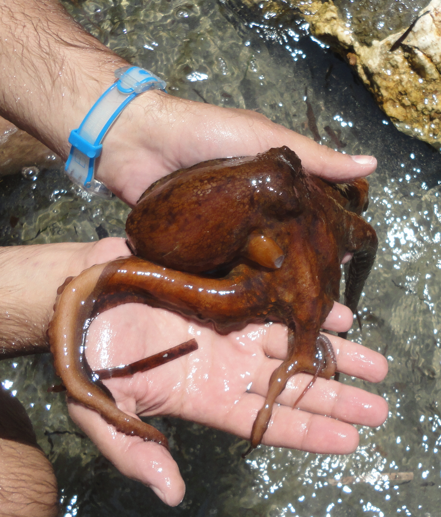 This is a common Octopus with a forked arm that was found in south Crete, Greece